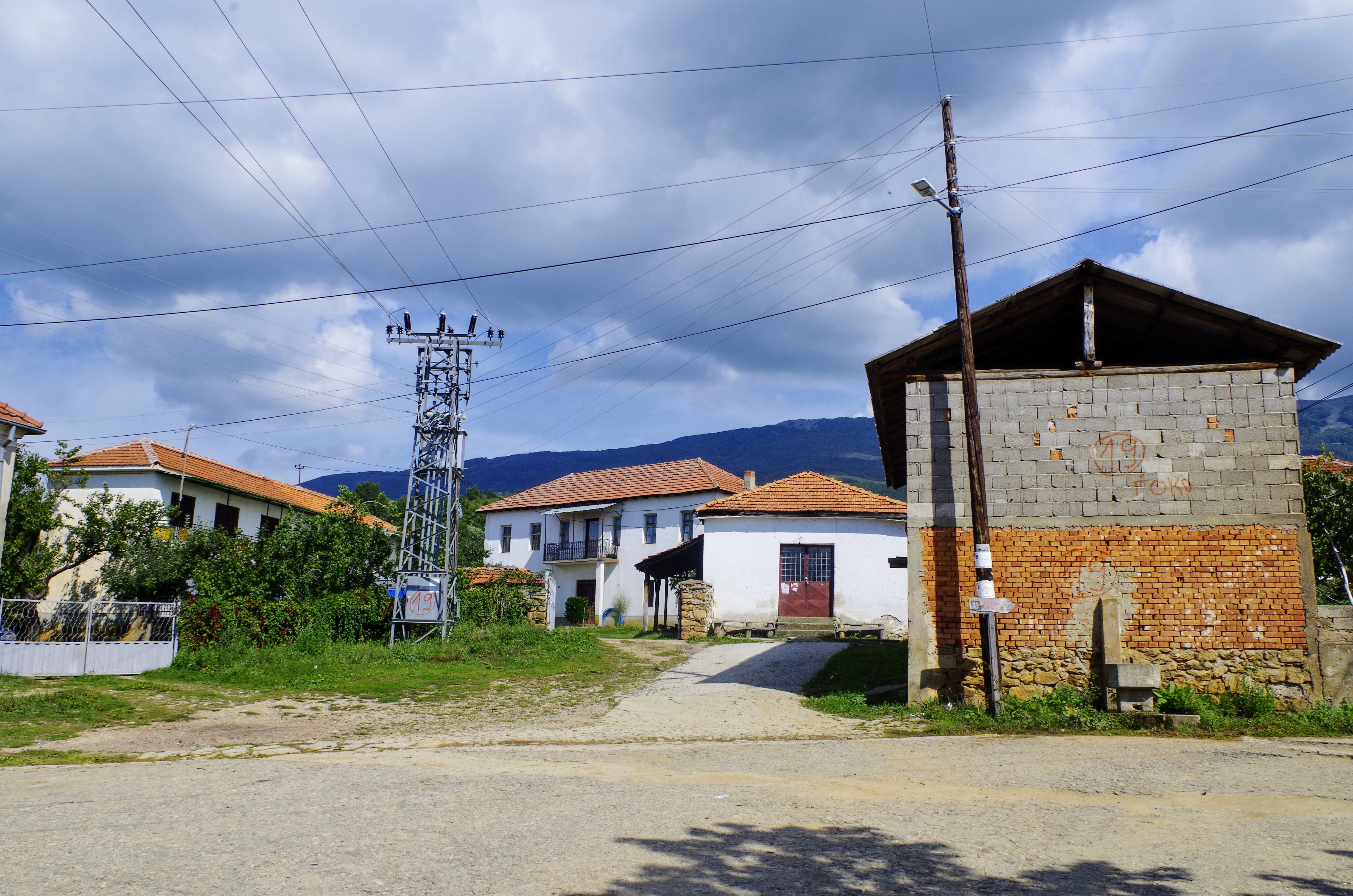 View of the village Kurbinovo